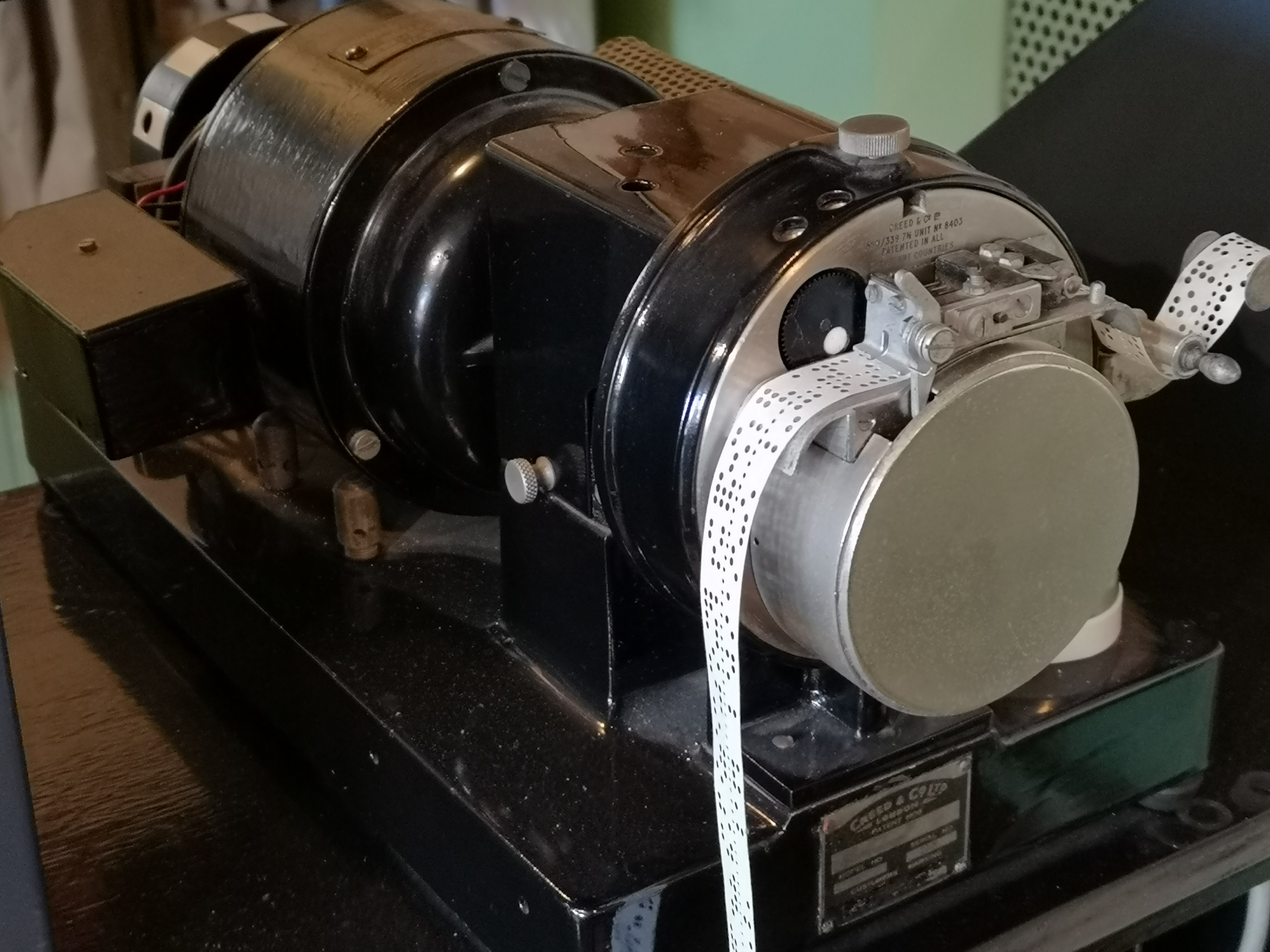 Creed model 6S/2 5-hole paper tape reader photographed at The National Museum of Computing on Bletchley Park, England